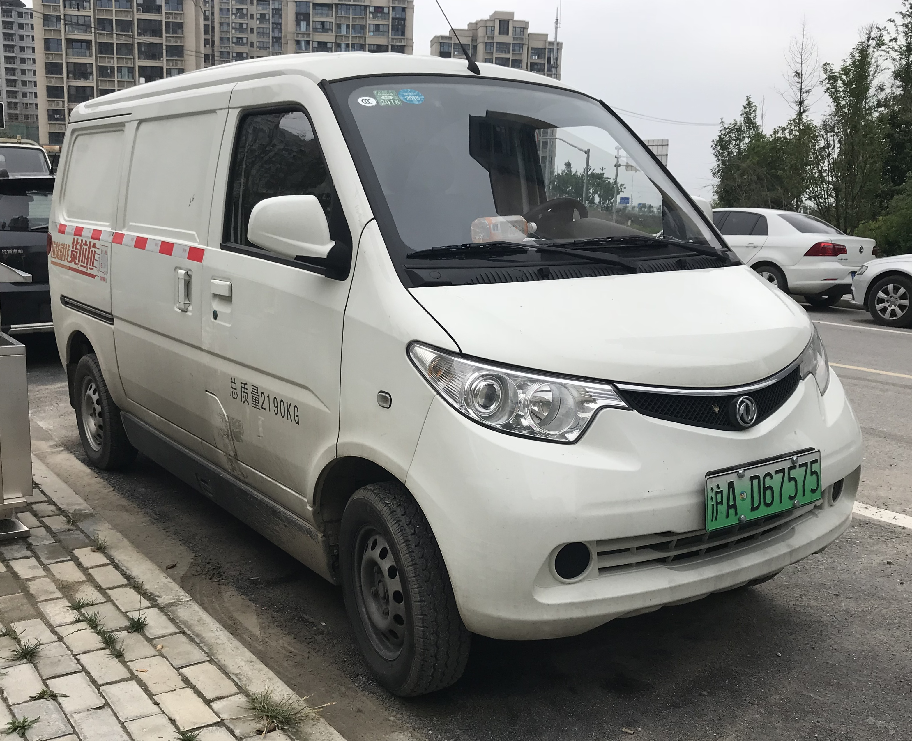 Skio Junfeng 俊风 EV by Dongfeng